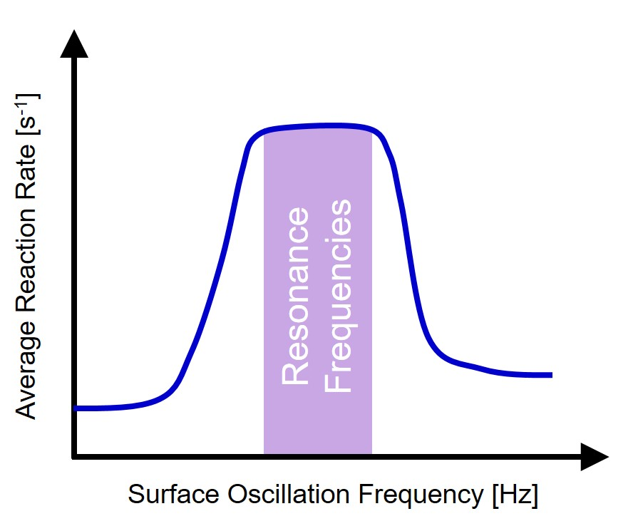 Catalytic Resonance Response